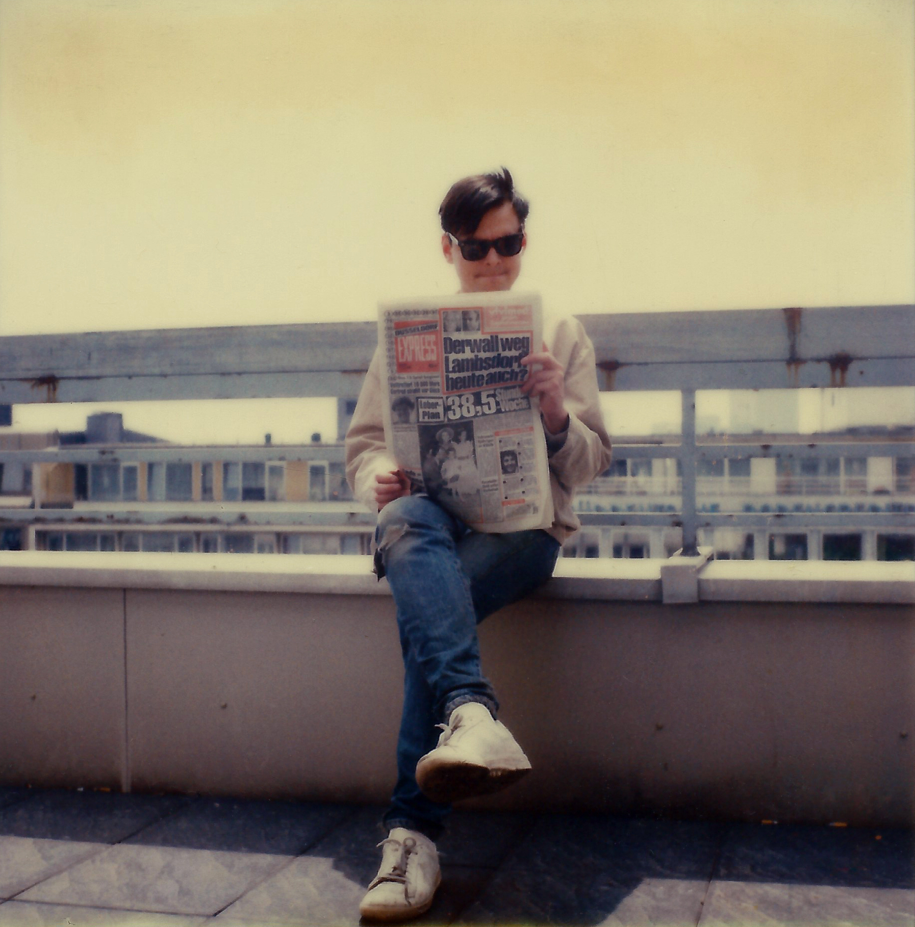 Diedrich Diederichsen, on the roof of the advertising agency GGK (Immermannstraße 6, Düsseldorf), reading the Express newspaper from Cologne (Polaroid)